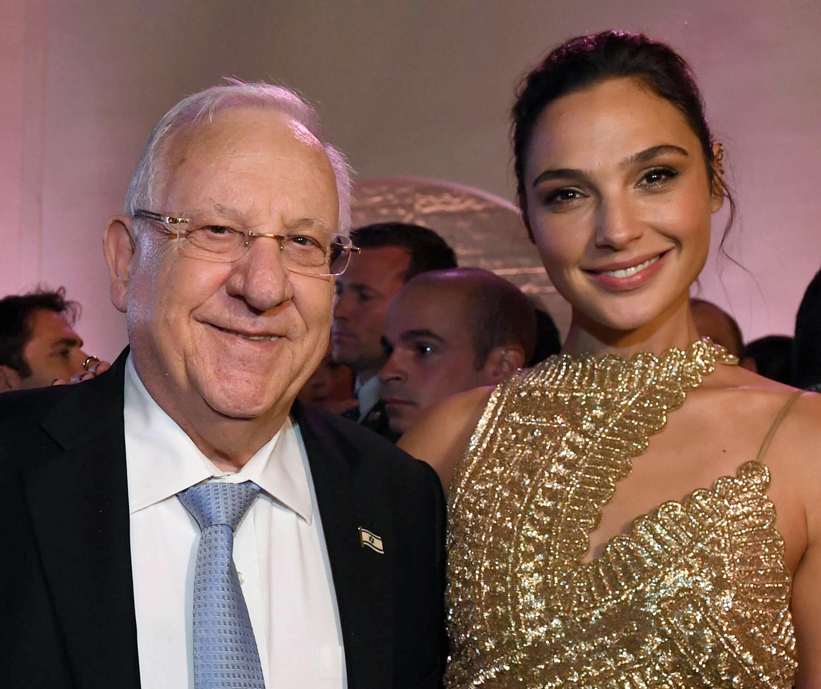 President Reuven Rivlin met with actress Gal Gadot. Tuesday, November 14, 2017. Photo Credit: Mark Neyman (GPO).